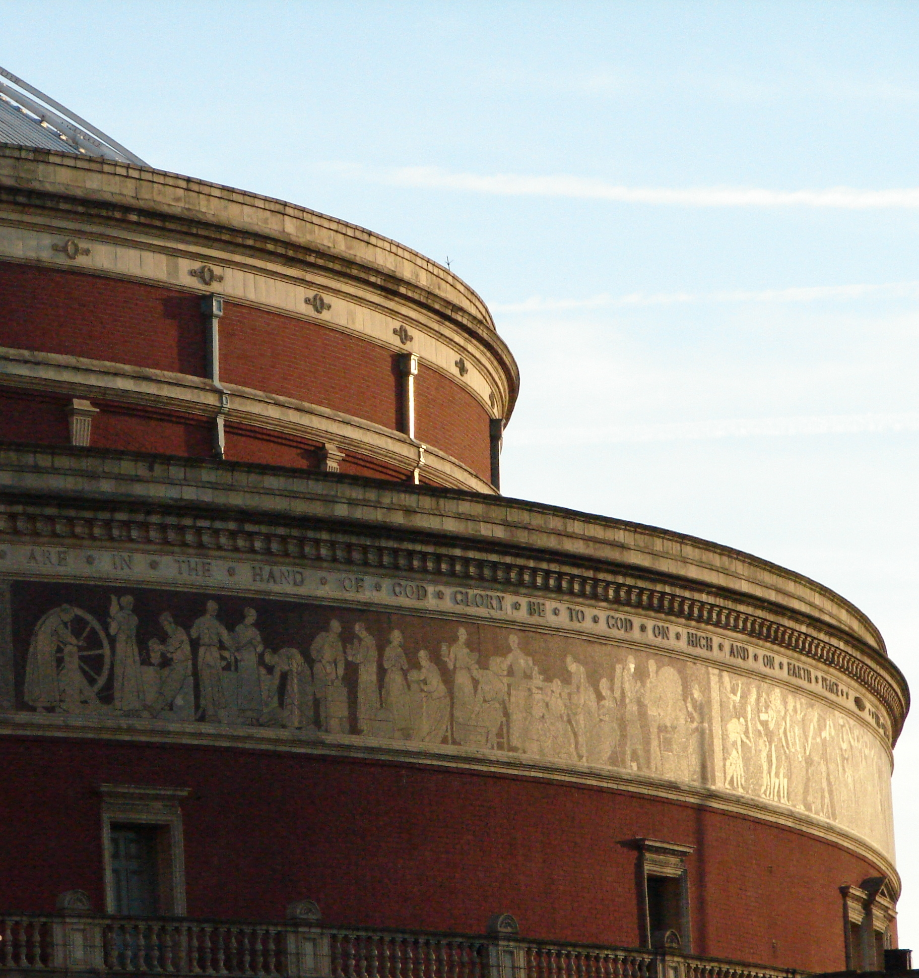 I took this photo on 10/06/06